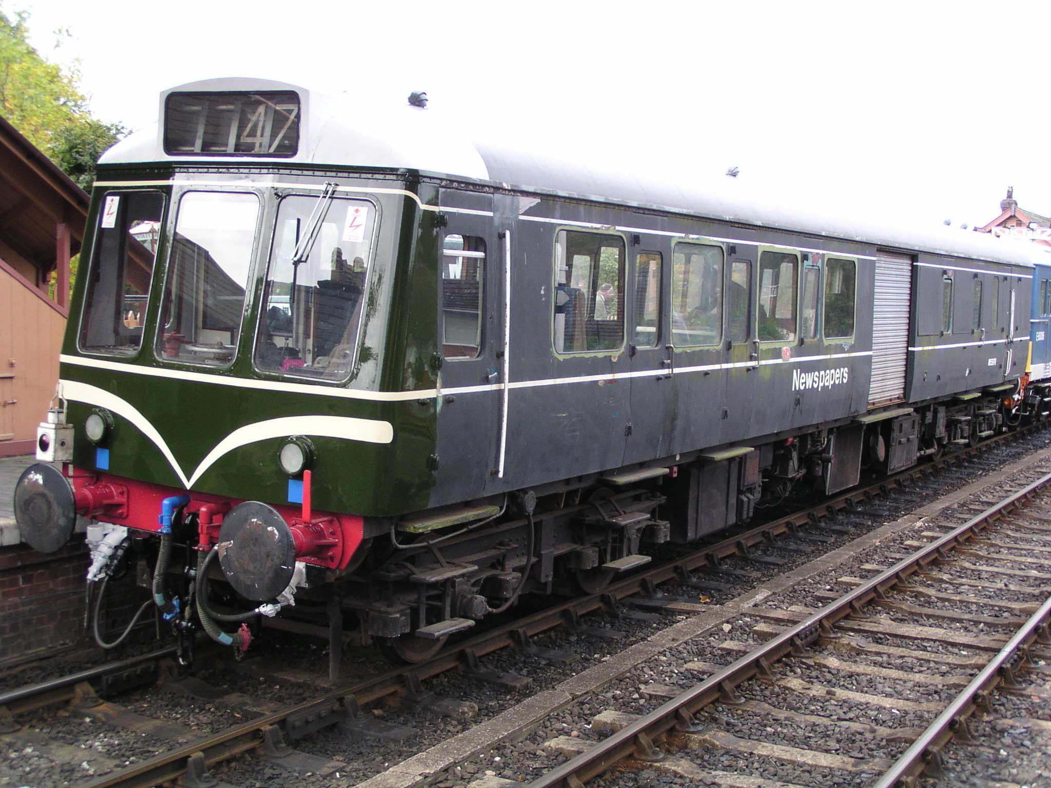 BR Class 127, no. 55976 at Bewdley on 15th October 2004. This vehicle was rebuilt as a parcels unit from 51625, with the addition of roller-shutter doors. Now preserved at the Midland Railway Centre, it is being rebuilt back to a passenger vehicle.